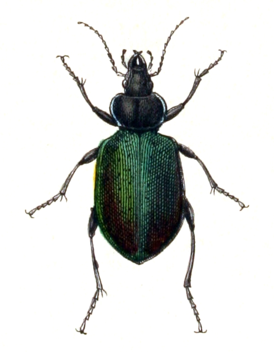 Calosoma sycophanta, from Calwer's Käferbuch, Table 4, Picture 9. Taxonomy was updated to 2008, using mostly the sites Fauna Europaea and BioLib. Please contact Sarefo if the determination is wrong!